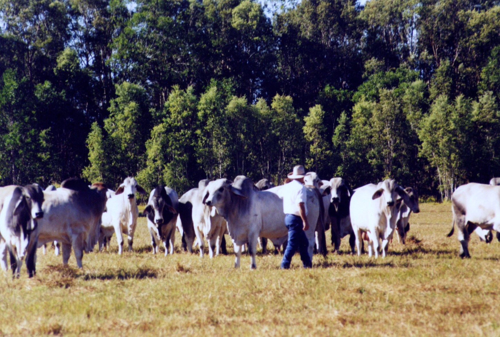 Some of the Brahman bulls in a paddock, Tipperary Station, Northern Territory